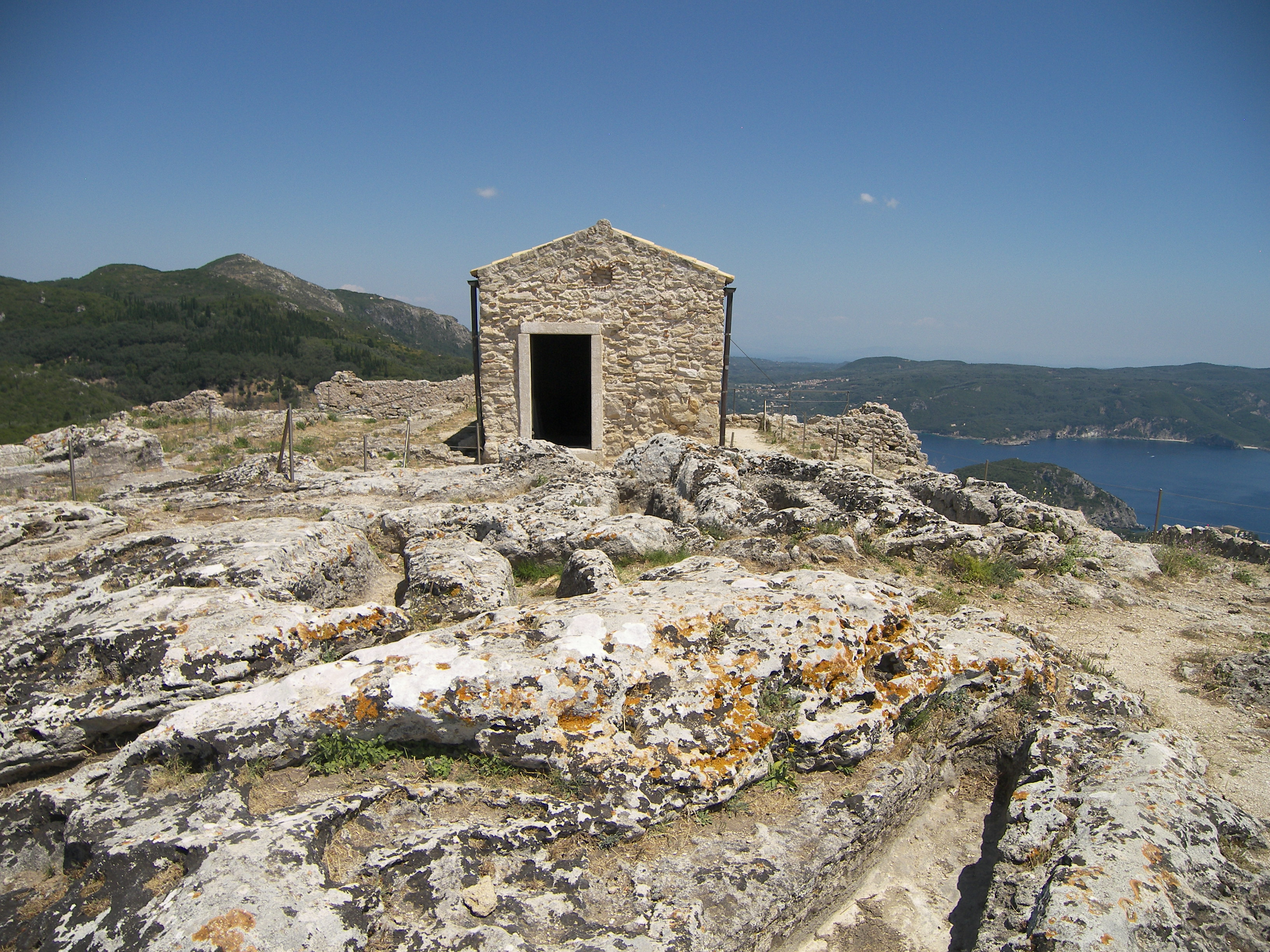 Please see filename.